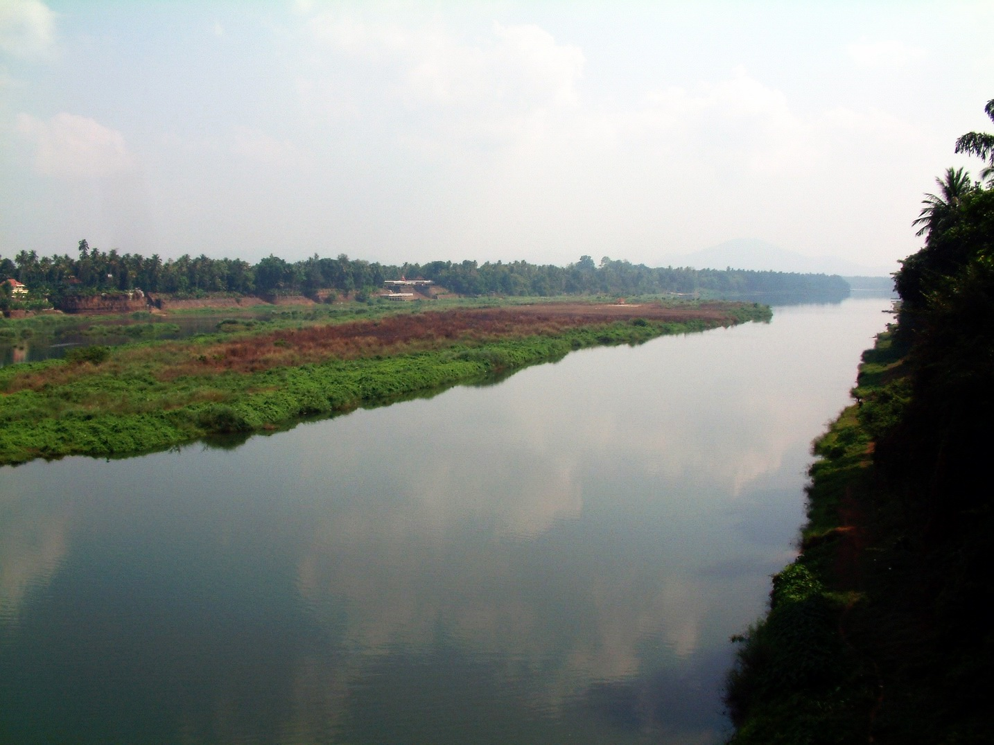 Periyar river at Perumbavoor.